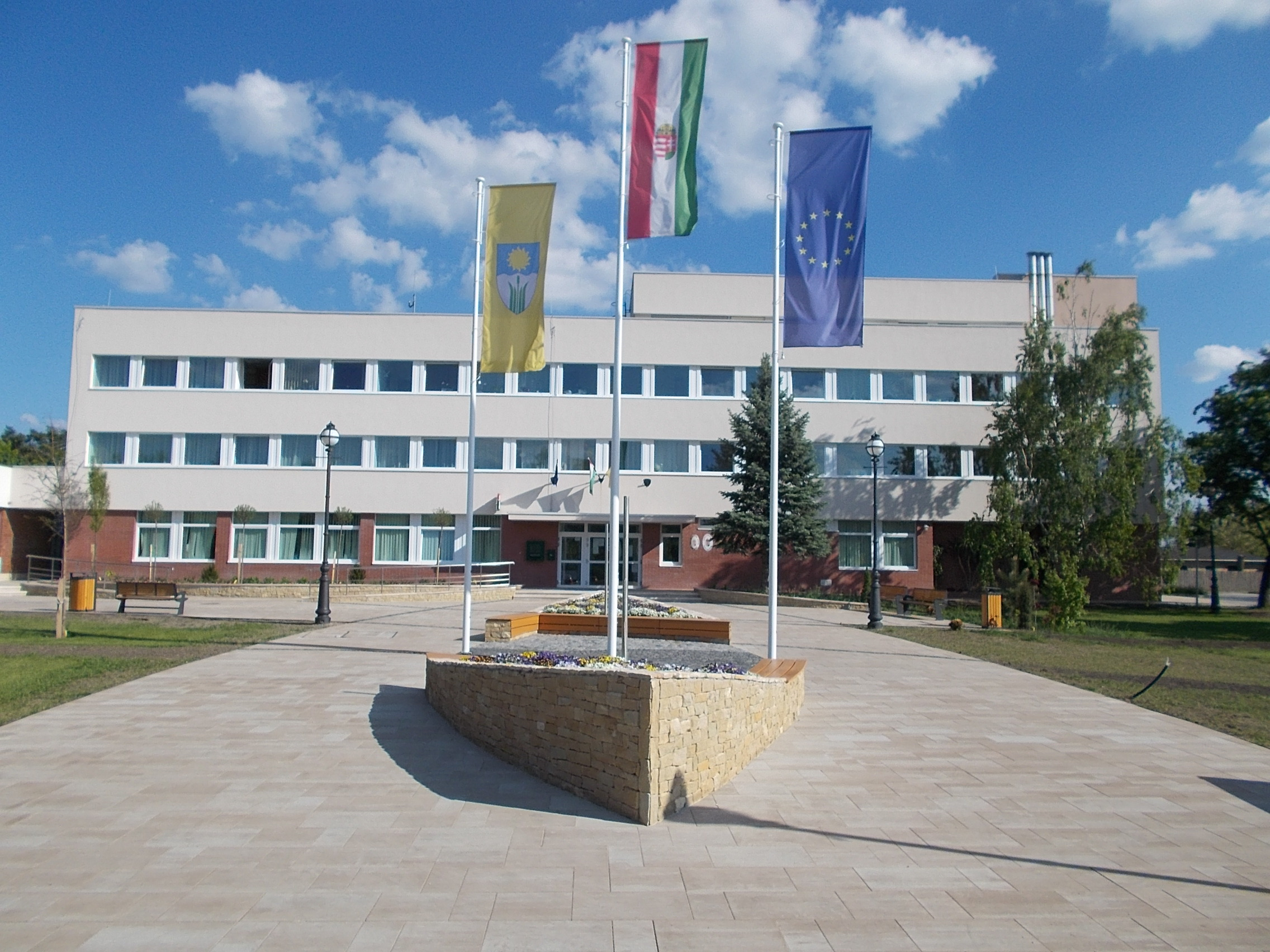 Town Hall, Mayor's office. - Szabadság út, Gárdony, Fejér County, Hungary.